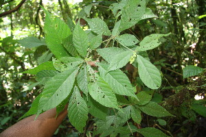 Acalypha apodanthes